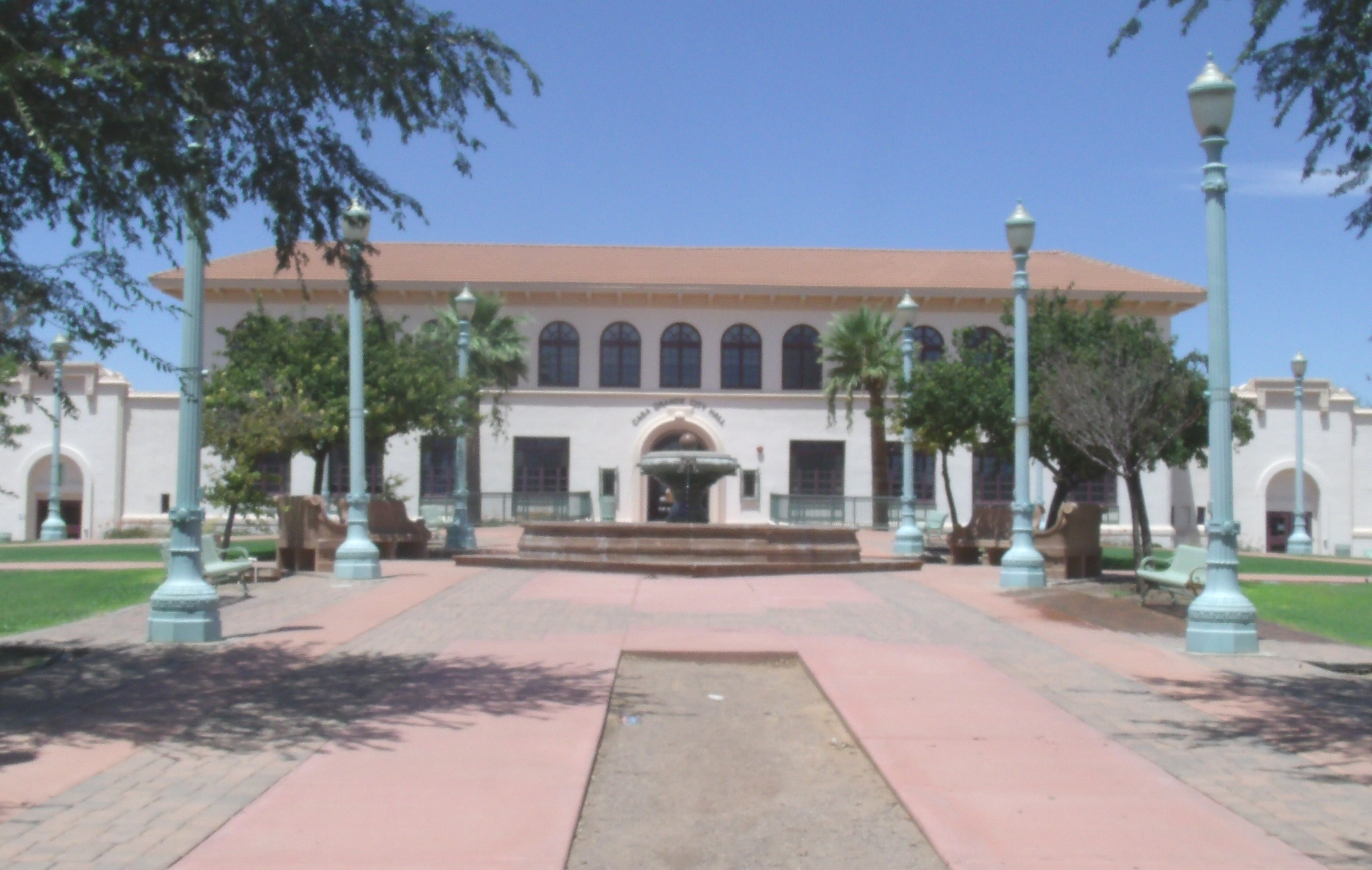 The Casa Grande Union High School was built in 1920 and is located at 510 E. Florence Boulevard. The building now serves as the Casa Grande City Hall. The structure was listed in the National Register of Historic Places in 1986, reference #86000821.